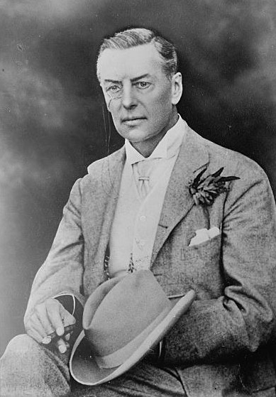 Joseph Chamberlain (1836 – 1914), British businessman, politician, and statesman